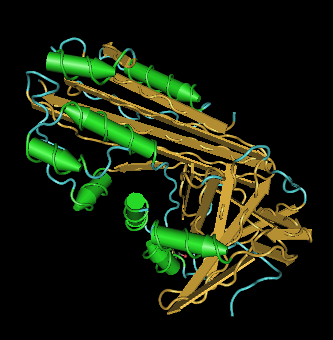 Structure of